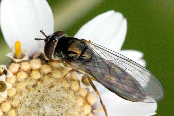 Platycheirus occultus from Commanster, Belgian High Ardennes .